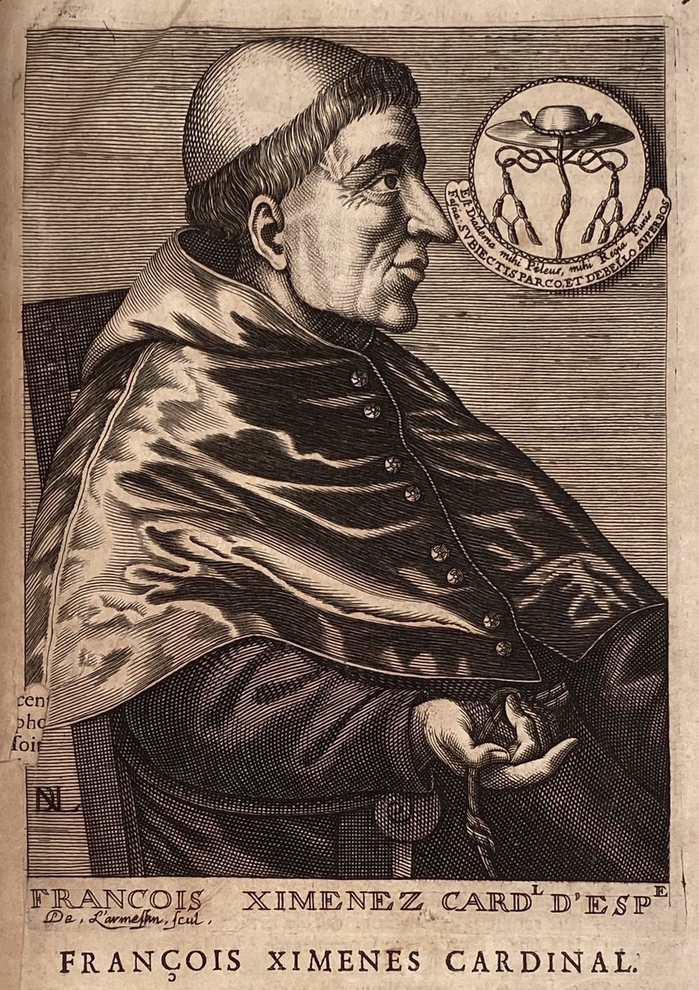 Half-length portrait of Francisco Jiménez de Cisneros, Spanish cardinal, facing to the right. Engraved by Nicolas de Larmessin. Isaac Bullart. Académie Des Sciences Et Des Arts. - Amsterdam: Elzevier, 1682.